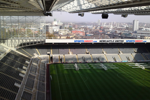 St James' Park, view across Newcastle University to Civic Centre and beyond. – St James' Park has the highest stand in the United Kingdom, visible from all parts of Tyneside. Newcastle United have played here since 1892. The stadium has two high sides, to the north and west, with lower stands to the south and east. The reduction in natural light was not a success for the grass, which died and the pitch had to be relaid two or three times a season. This problem has been resolved with under floor heating, and movable halogen lighting to keep it bright all night if necessary, here being readied for deployment. A good result. The turf looks splendid. This shot was taken from the top back row in the west, Milburn, stand. The Leazes end is on the left, Gallowgate end out of shot to the right. The east stand cannot be extended due to its close proximity to Leazes Terrace, a listed terrace of stone dwellings, now used as offices. In earlier days football fans would stand on the roof of this block, and hang out of windows, to watch the matches! The cantilevered stand is currently the largest in Europe. Beyond the stadium are Newcastle University buildings, with red brick at the core, originally King's College of Durham University. Beyond them is Newcastle's 1960's Civic Centre. By the time some viewers will be seeing this picture the Stadium may be called the Sports Direct Arena - or something else. It will provide welcome work to rebrand the roof and other parts of the ground! For old Geordies it will always be St James's Park. That apostrophe has been contentious for decades!